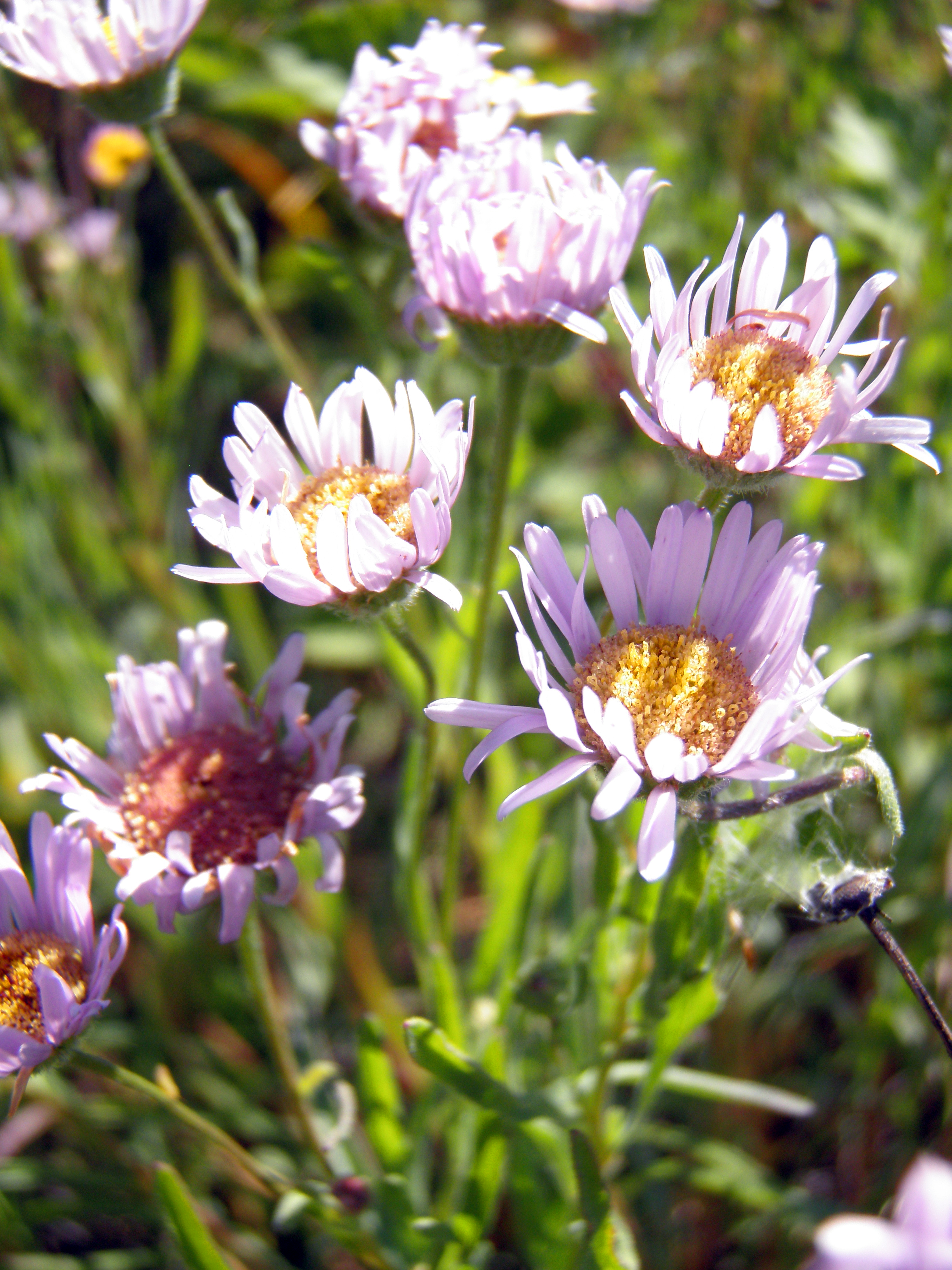 Scientific name: Erigeron decumbens var. decumbens Common name: Willamette Daisy Willamette daisy (Erigeron decumbens) is an endangered species. Spring is here and the flowers are in full bloom at one of Oregon's natural gems. Located on the western edge of Eugene, Oregon, the West Eugene Wetlands (WEW) is a beautiful and rare area of grassland habitats. Comprised of less than one percent of the original native wet prairie, the WEW is home to over 200 species of wildflowers, plants, birds, and animals, including four threatened and endangered species: Fender’s blue butterfly, Kincaid’s lupine, Bradshaw’s lomatium, and Willamette daisy. The BLM's Eugene District, in collaboration with other Rivers to Ridges partners, works to protect and restore this vital wetland ecosystem in the Southern Willamette Valley. This unique project involves federal, state, and local agencies, as well as non-profit organizations, working together to manage lands and resources in an urban area for multiple public benefits. Each year, Willamette Resources & Educational Network (WREN) provides hands-on, minds-on environmental education to over 1,500 local students. Photo credits: Christine Williams, Mackenzie Cowan, Sandra Miles, Sally Villegas, and West Eugene Wetlands staff. For directions or to plan a visit to the West Eugene Wetlands